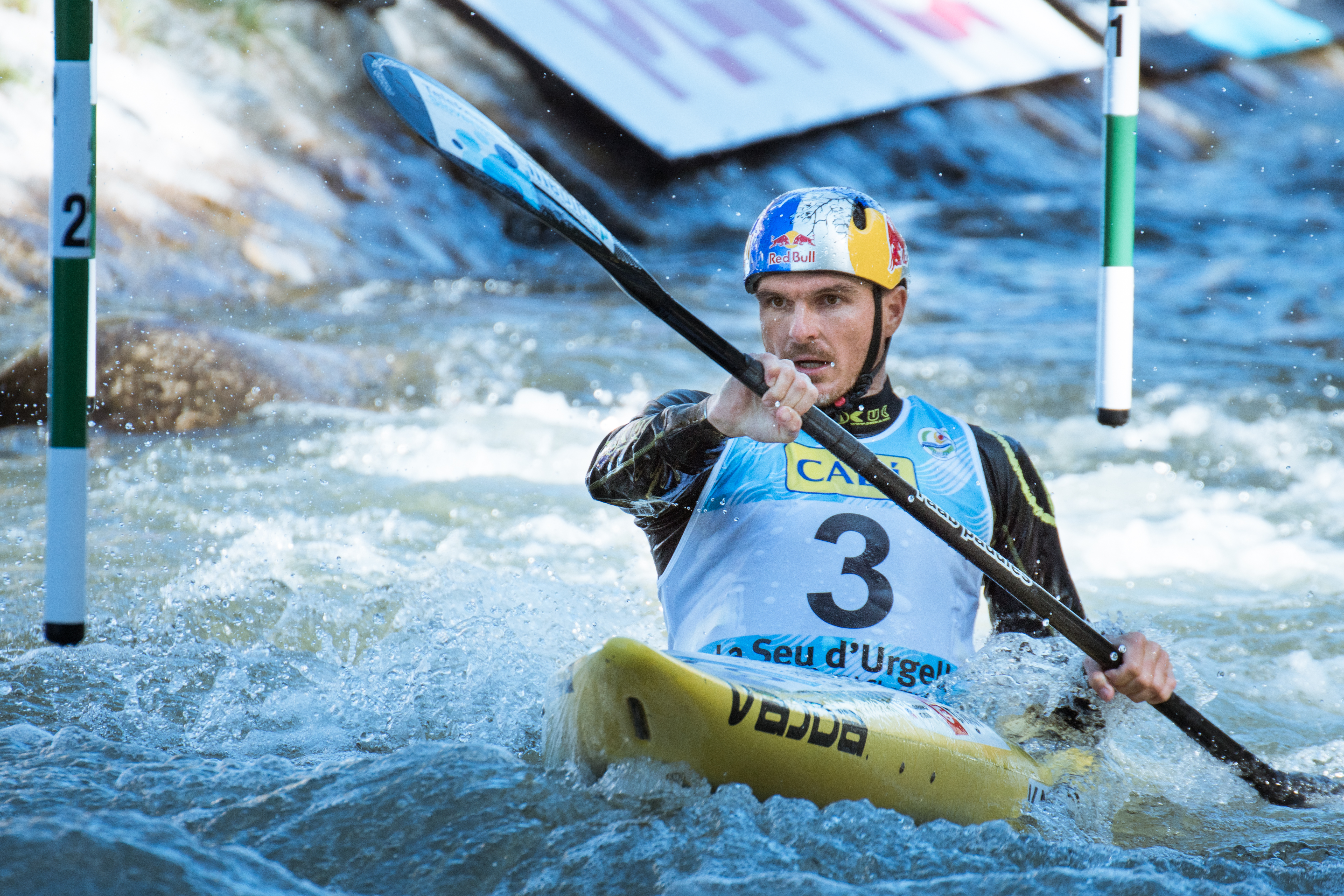 Peter Kauzer during the 2019 Canoe Slalom World Championships in La Seu d'Urgell, Spain.